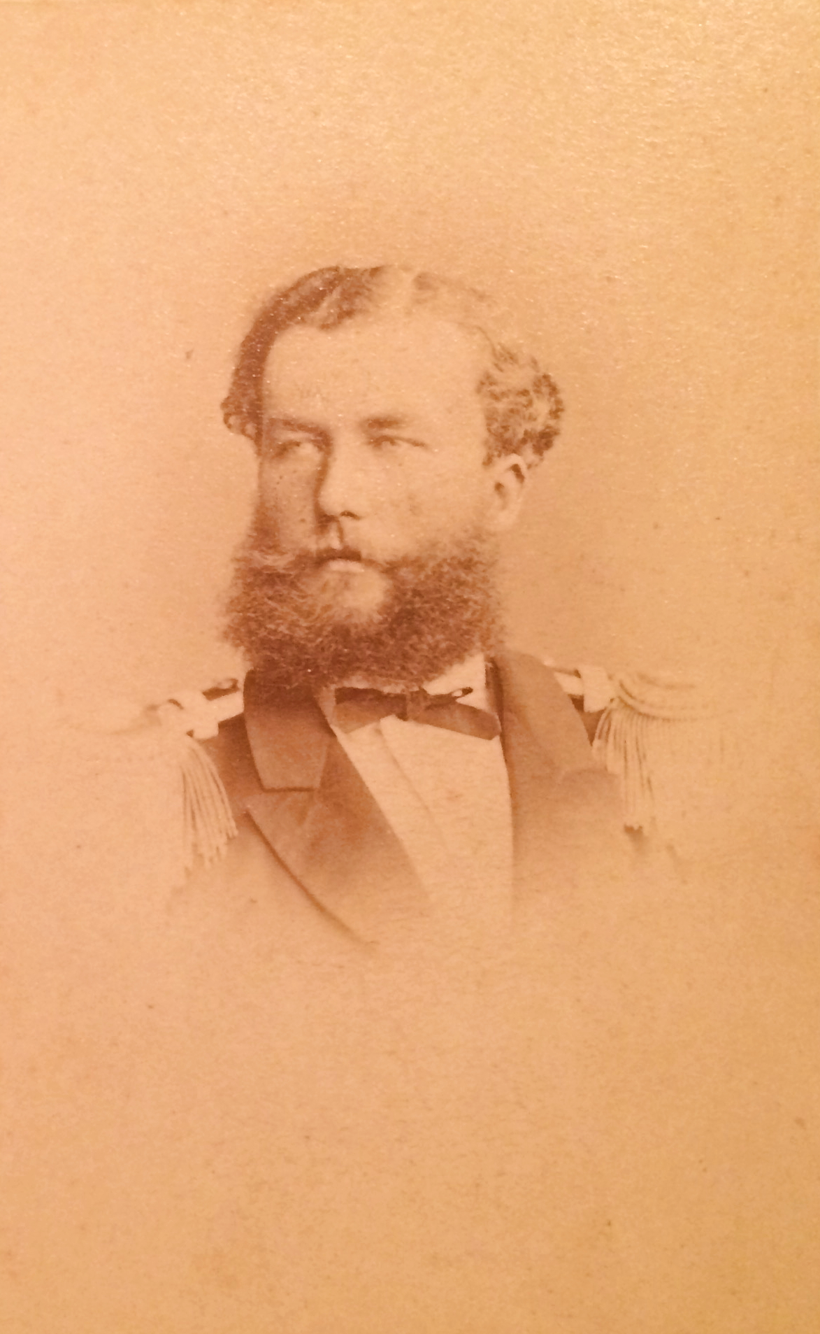 The later Konteradmiral of the Imperial German Navy, Franz Strauch as Officer Cadett, photographed around 1865 in Greifenhagen (today Gryfino). Strauch later was commander of S.M.S. Leipzig, the flagship of East Asia squadron. Strauch also was Vicepresident of the German Colonial Society. Some parts of his collection are today part of the Humbold-Forum and the Münzkabinett on the Berlin Museum Island.